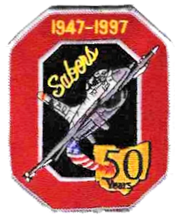 162d Fighter Squadron 50th Anniversary patch